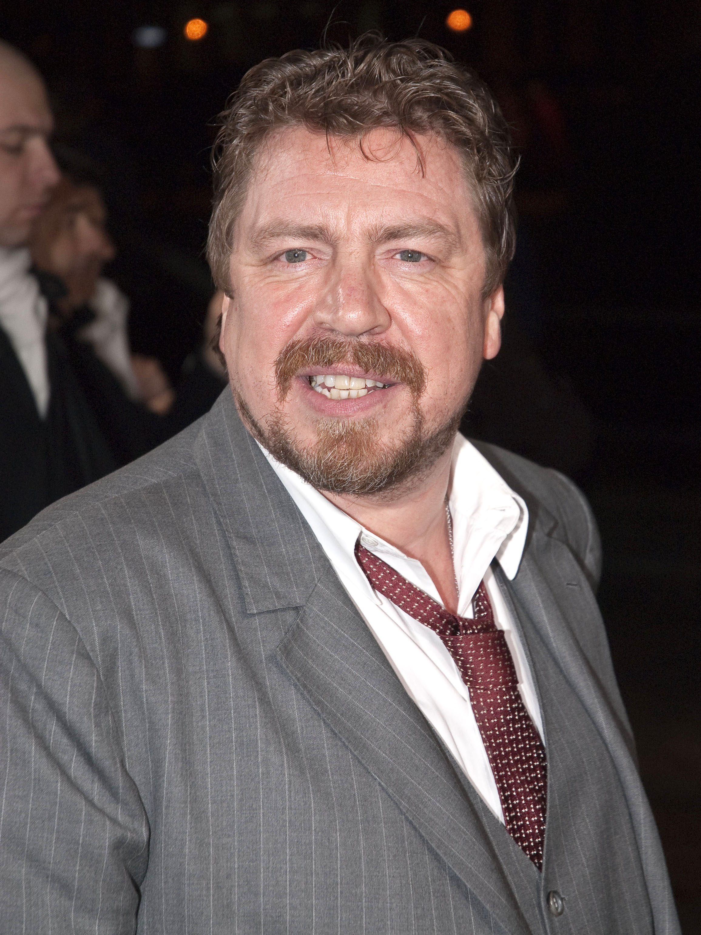 German actor Armin Rohde at the Volkswagen People’s Night 2008